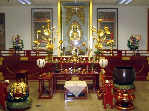 (Shingon hall at Ming Ya Buddhist Foundation at Los Angeles (洛杉磯佛學明月居士林).)